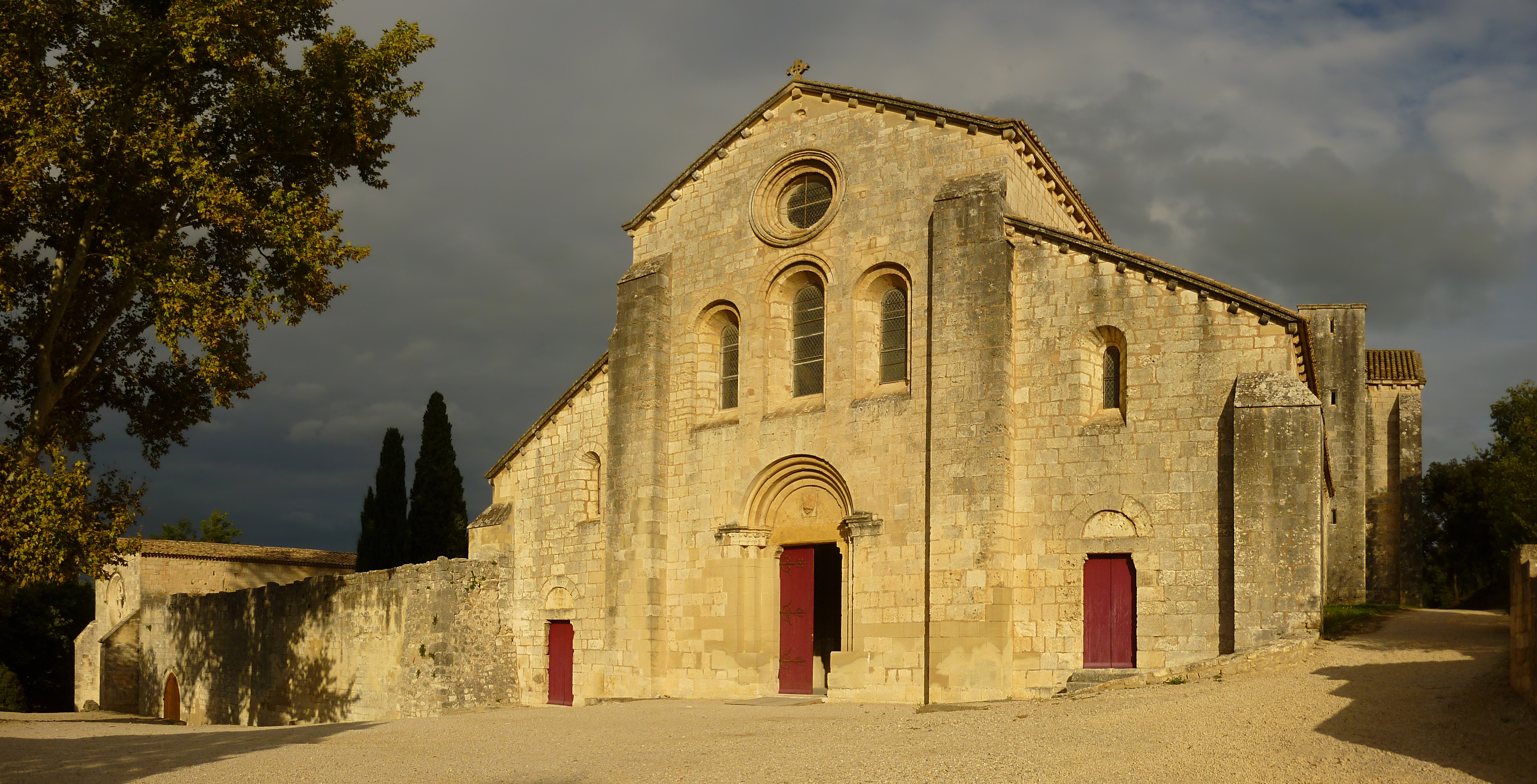 Facade of the Silvacane Abbey. Panorama created with Hugin from 2 wide angle pictures (Panasonic ZX1).